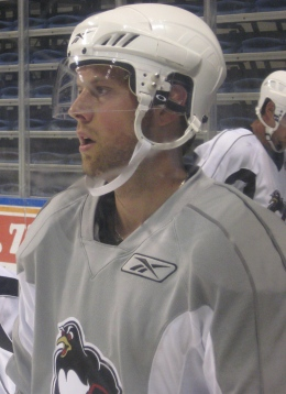 Jean-Michel Daoust, 2008-09 WBS Penguins training camp